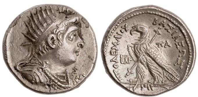 Coin of Ptolemy VIII